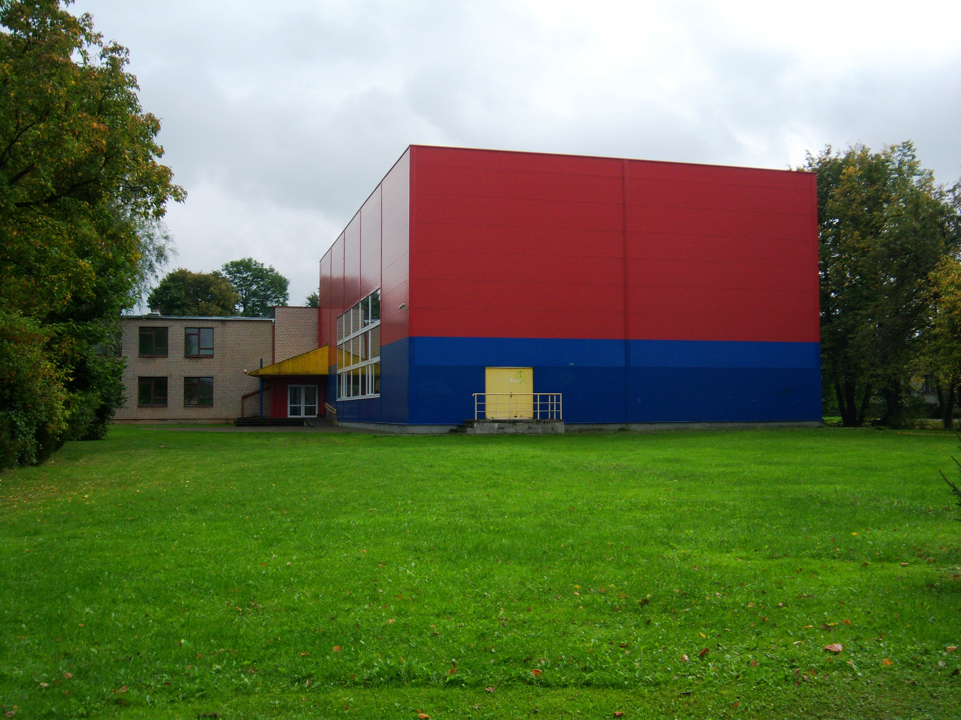 Vaišvydava basic school, Kaunas, Lithuania